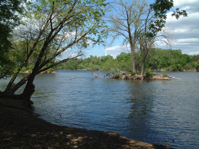 North Mississippi Regional Park. A view of the Mississippi River from the park.. taken by Caleb Musselman